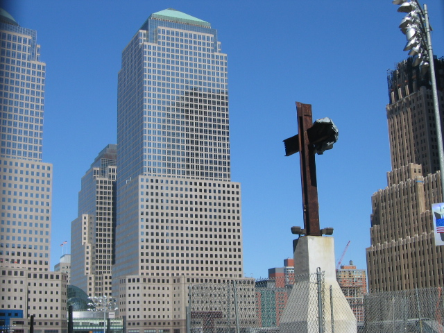 Ground Zero, World Trade Center cross